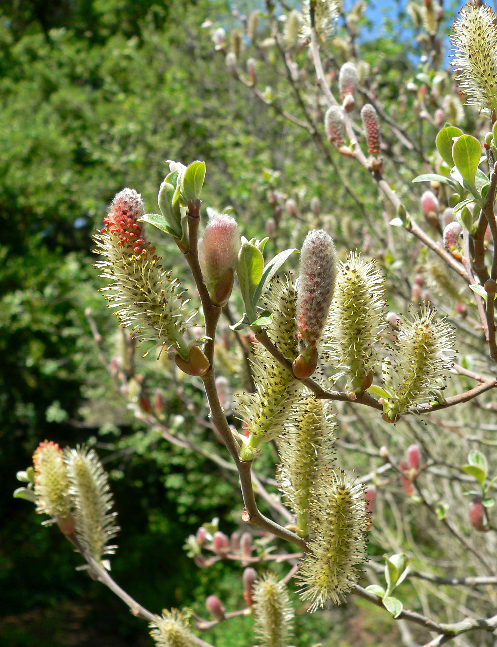 Salix delnortensis at the University of California Botanical Garden, Berkeley, California